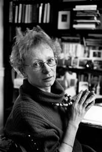 Annelise Grobéty